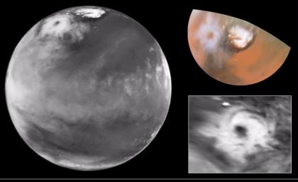 Original Caption Released with Image: [left]: Here is the discovery image of the Martian polar storm as seen in blue light (410 nm). The storm is located near 65 deg. N latitude and 85 deg. W longitude, and is more than 1000 miles (1600 km) across. The residual north polar water ice cap is at the top of the image. A belt of clouds like that seen in previous telescopic observations during this Martian season can also be seen in the planet's equatorial regions and northern mid-latitudes, as well as in the southern polar regions. The volcano Ascraeus Mons can be seen as a dark spot poking above the cloud deck near the western (morning) limb. This extinct volcano towers nearly 16 miles (25 km) above the surrounding plains and is about 250 miles (400 km) across. [upper right]: This is a color polar view of the north polar region, showing the location of the storm relative to the classical bright and dark features in this area. The color composite data (410, 502, and 673 nm) indicate that the storm is fairly dust-free and therefore likely composed mostly of water ice clouds. The bright surface region beneath the eye of the storm can be seen clearly. This map covers the region north of 45 degrees latitude and is oriented with 0 degrees longitude at the bottom. [lower right]: This is an enhanced orthographic view of the storm centered on 65 deg. N latitude, 85 deg. W longitude. The image has been processed to bring out additional detail in the storm's spiral cloud structures. The pictures were taken on April 27, 1999 with the NASA Hubble Space Telescope's Wide Field and Planetary Camera 2